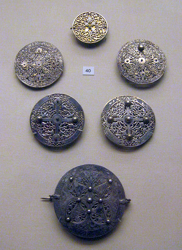 First half of 9th century AD Found at the churchyard at Pentney, Norfolk, England Typical Anglo-Saxon jewelry.